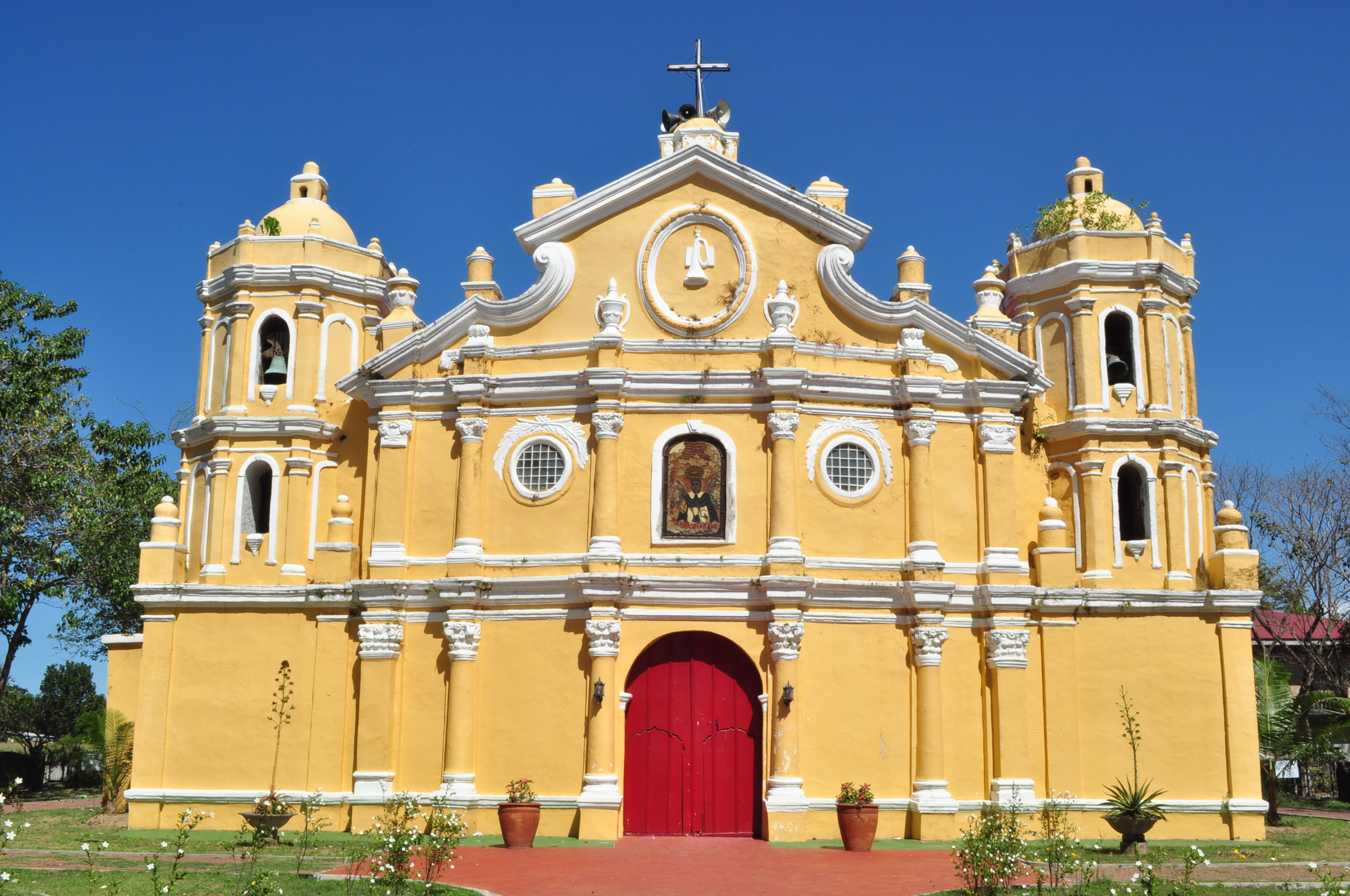 San Vicente Ferrer Parish Church, San Vicente, Ilocos Sur